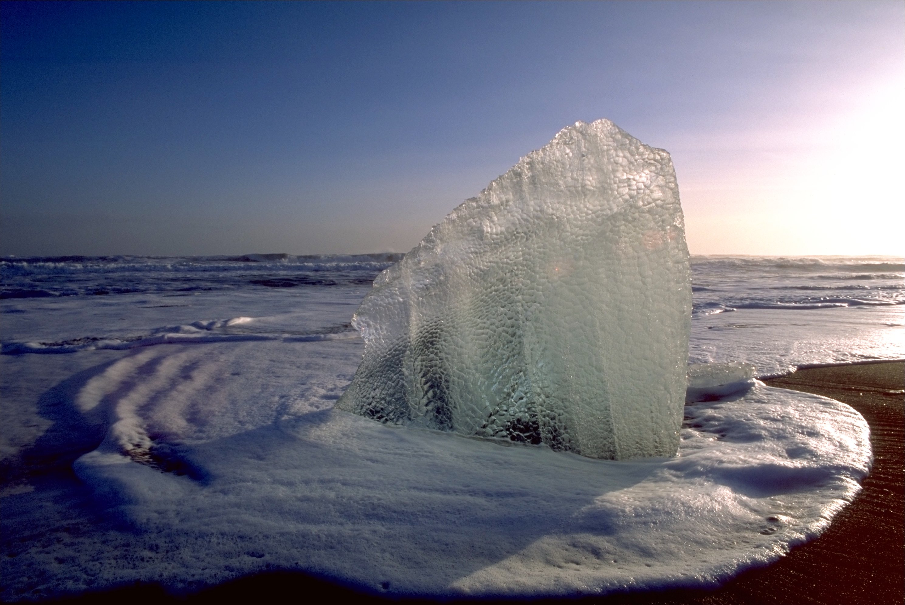 Ice block at beach near Jökulsárlón, Iceland.